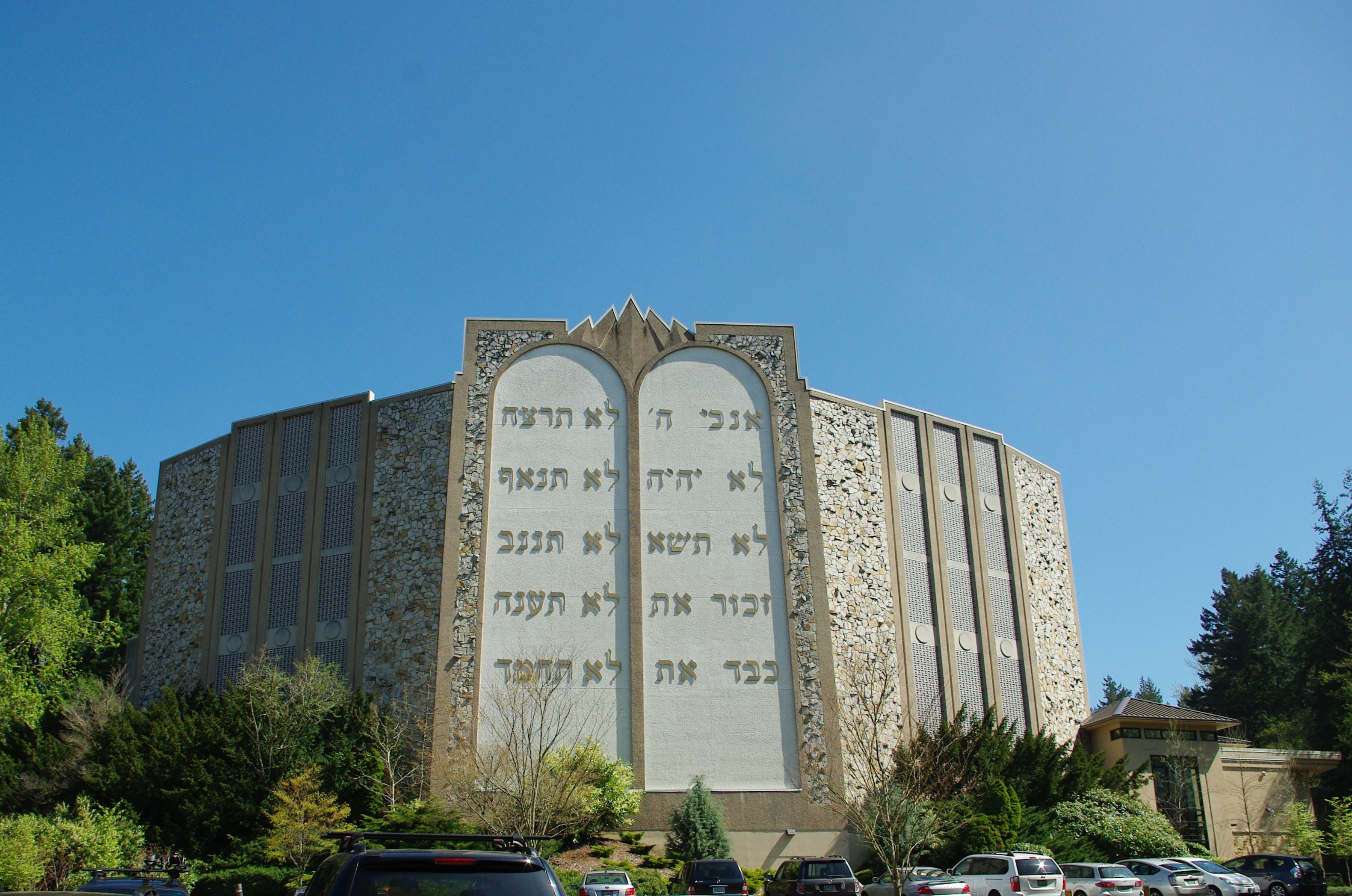 Neveh Shalom Synagogue in Southwest Portland, Oregon.